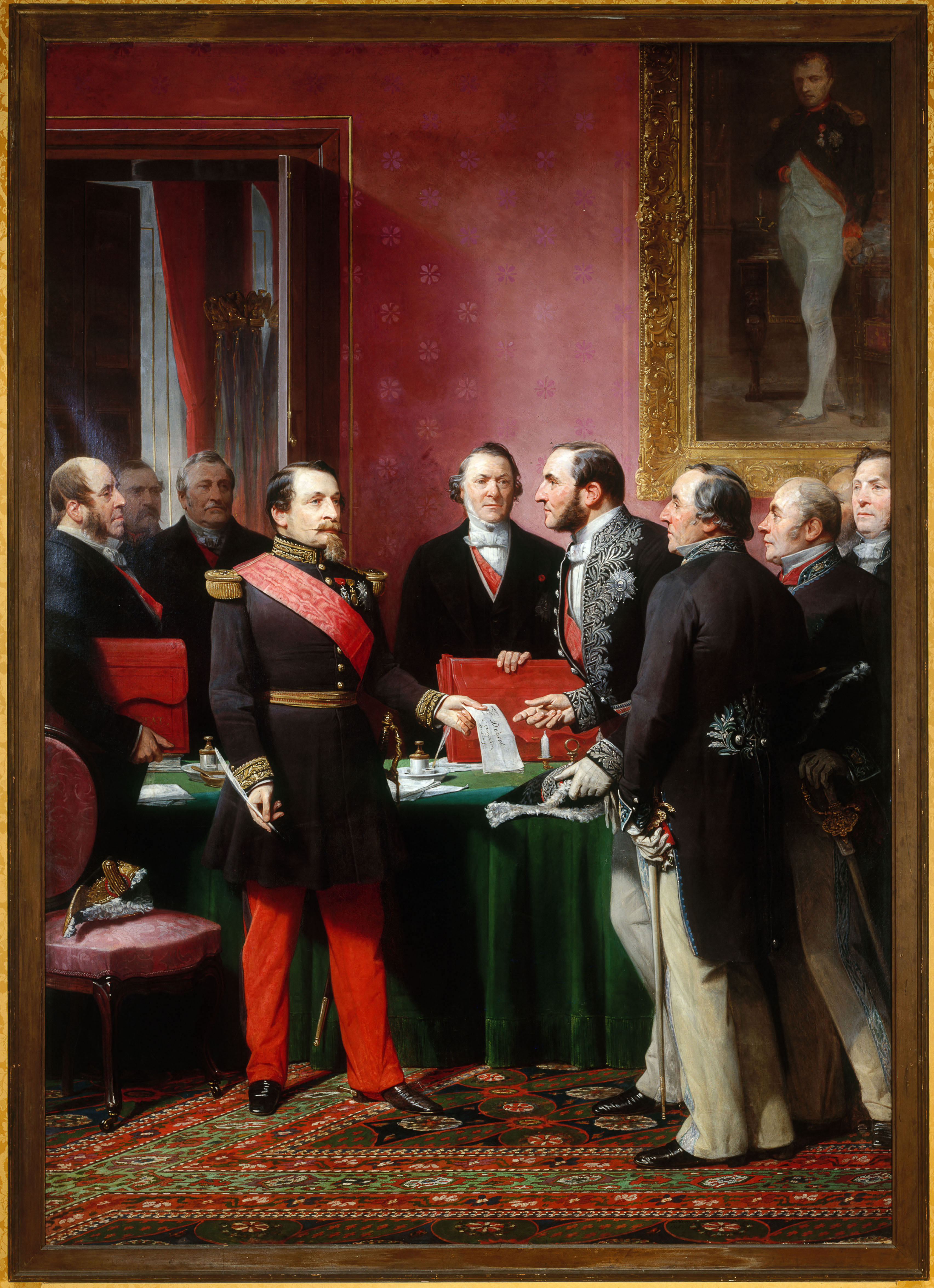 In an attempt to improve the economic conditions of the Parisian suburbs, on February 16, 1859, Napoleon III presented the decree for the annexation of 11 Parisian communes, that happened January 1, 1860. The addition eventually resulted in a major increase in population that demanded a geographical adjustment: Paris would no longer comprised of 12 but rather 20 arrondissements. Artist Adolphe Yvon was commissioned by the Conseil Municipal to document the event, but his painting was initially rejected for not emphasizing the prestige of the Conseil Municipal. He created a second work that was accepted, only to be destroyed in 1871 when the Palais de Tuileries burnt down. The original painting (shown here) is the only one that remains today. It is on display at the Musée Carnavalet in Paris.